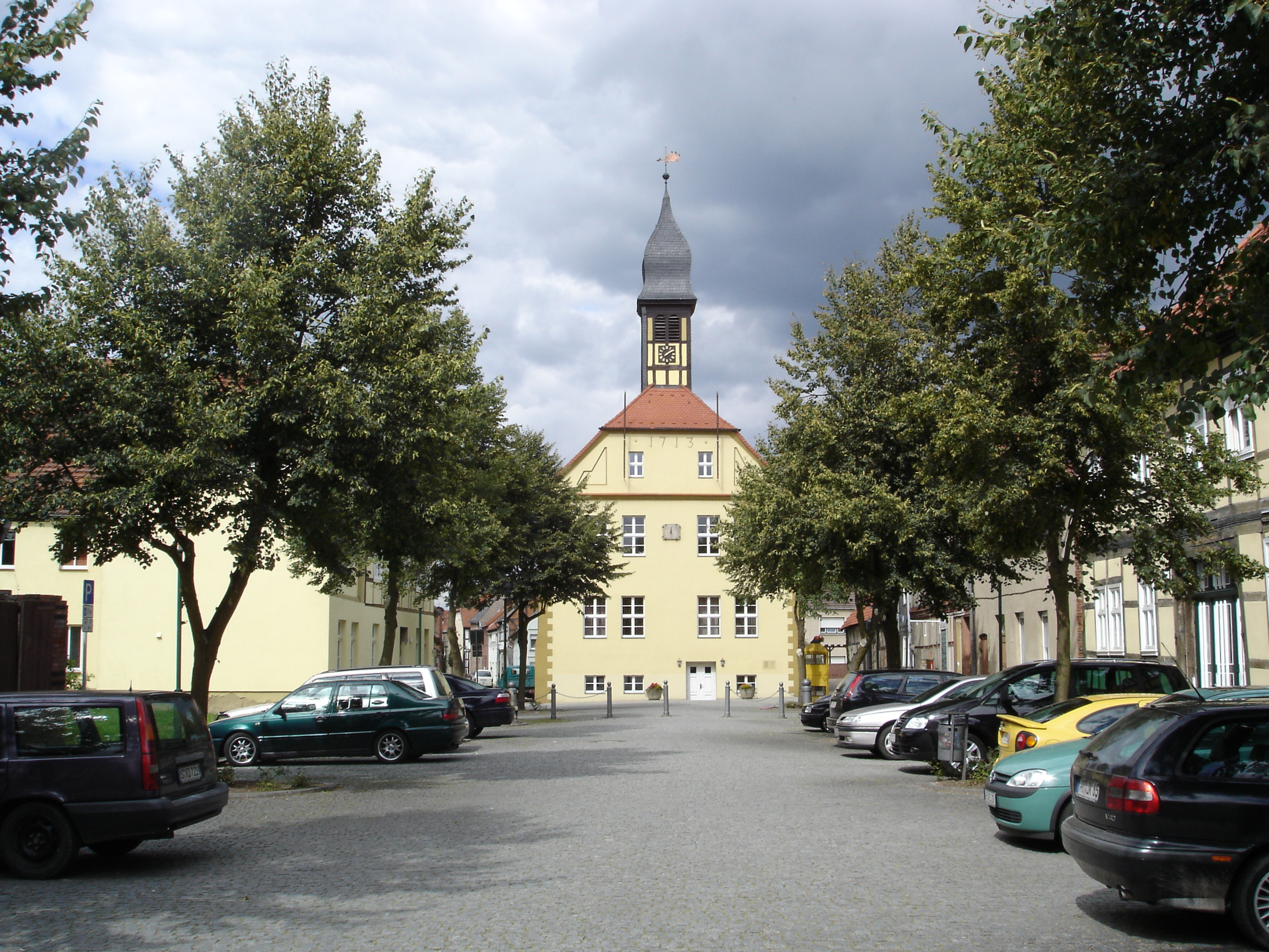 Town hall in Lenzen in Brandenburg, Germany